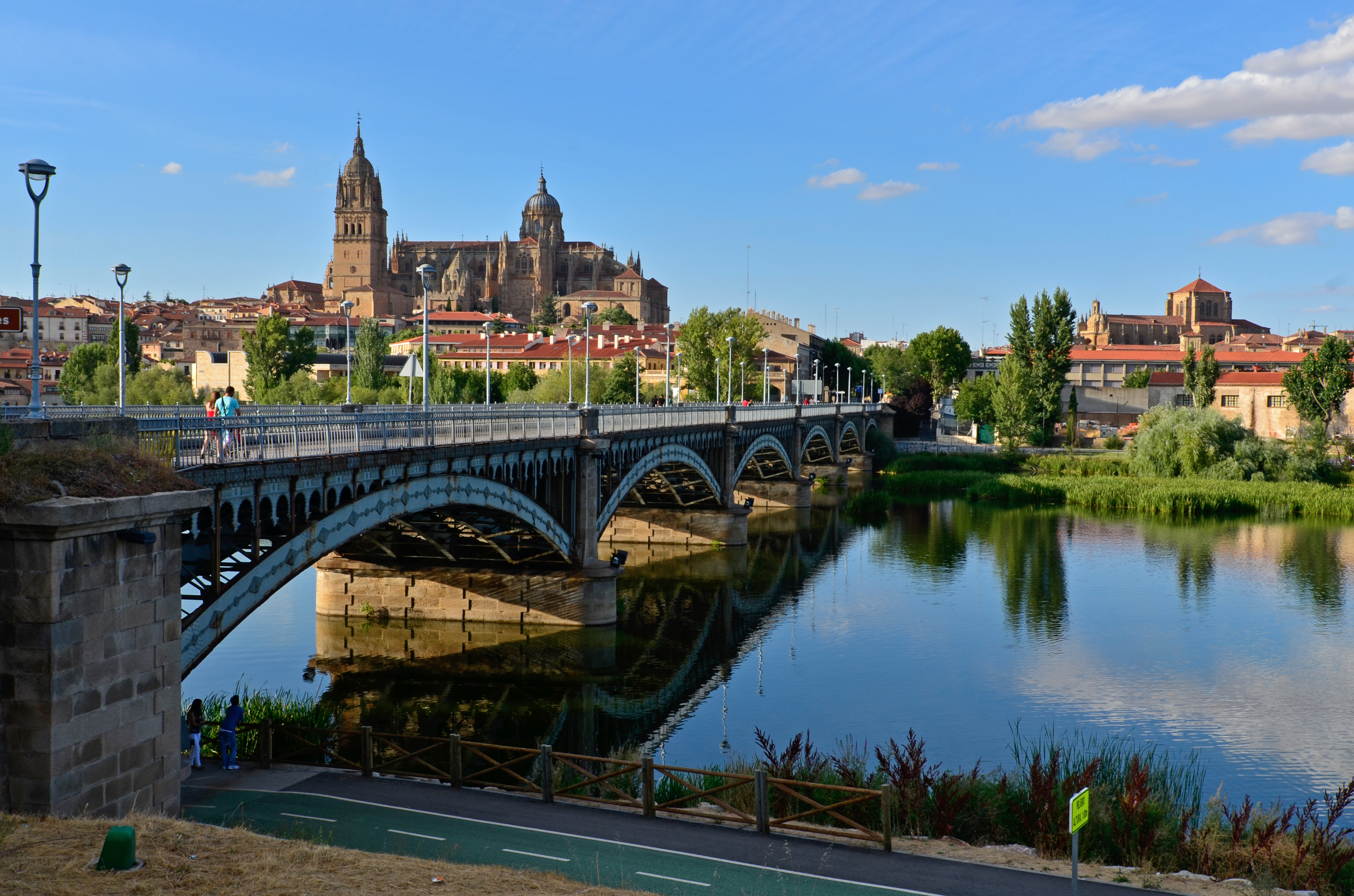 Old quarter of Salamanca and the bridge Enrique Estevan seen from south bank of Tormes river, Castile and León, Spain